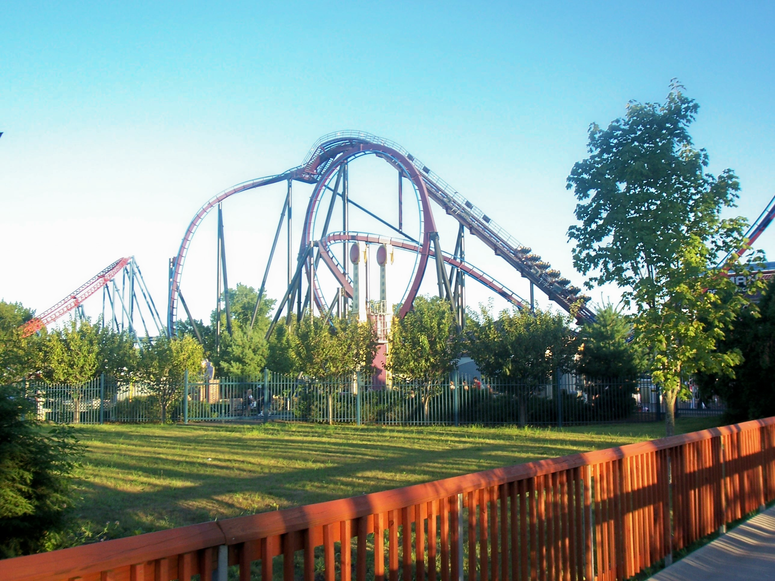 Batman - The Dark Knight roller coaster in Six Flags New England